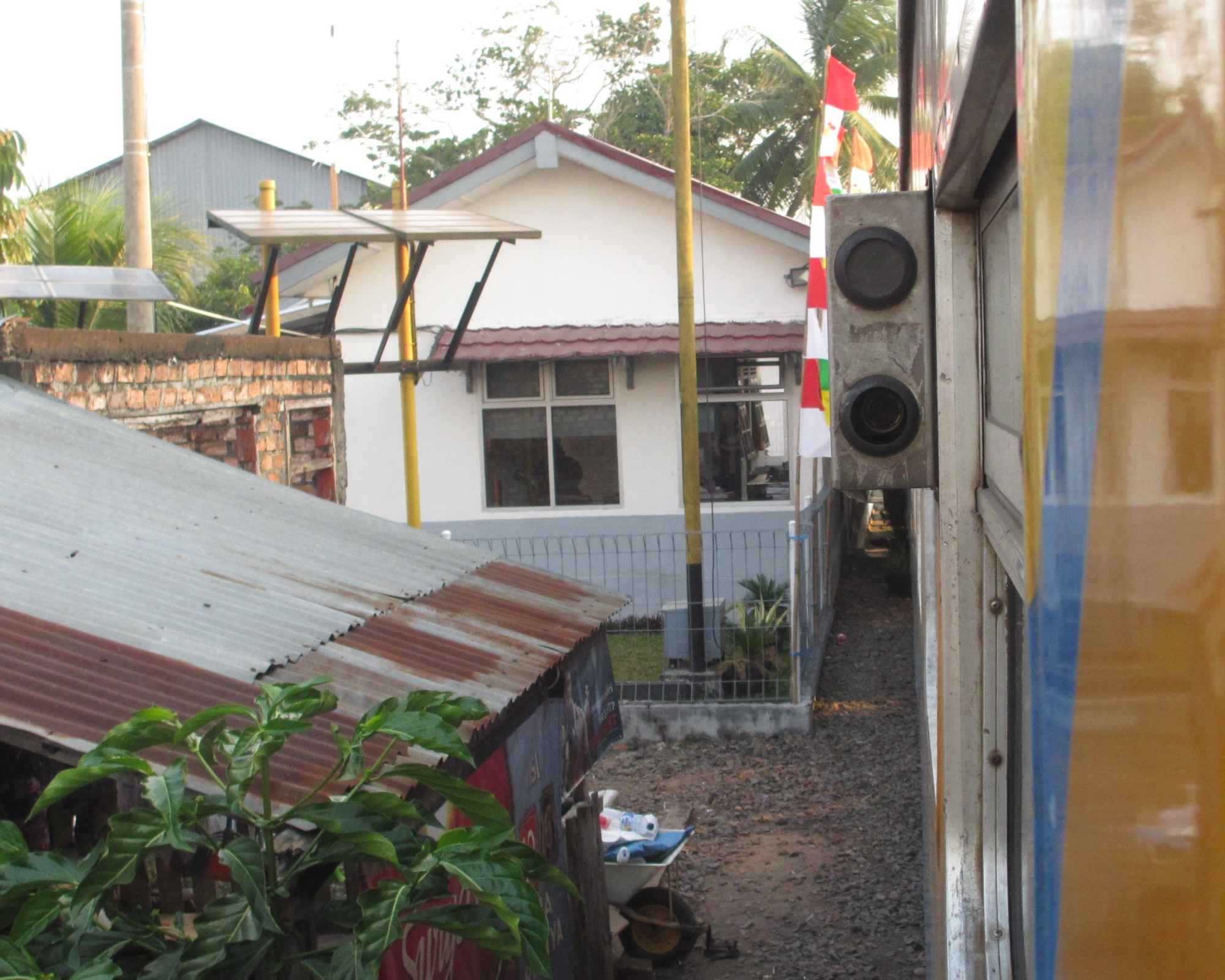 Simpang Railway Station.